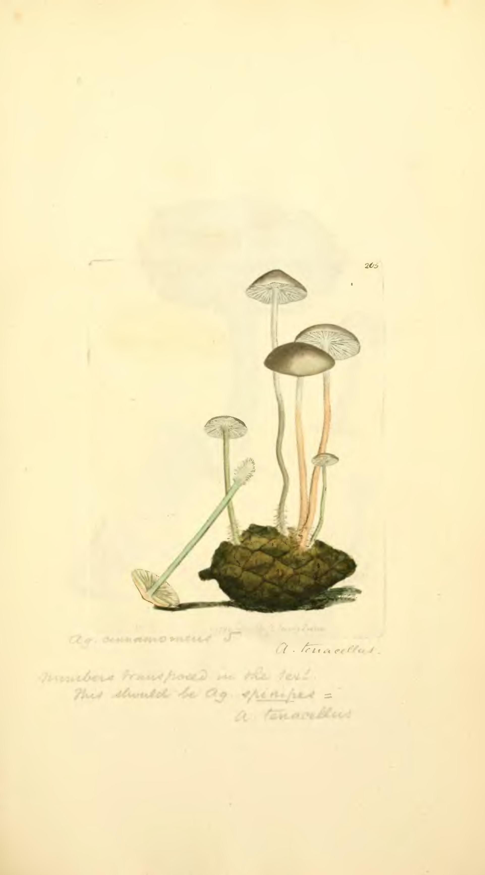 This is plate 205 from James Sowerby's Coloured Figures of English Fungi or Mushrooms. See below for more details.